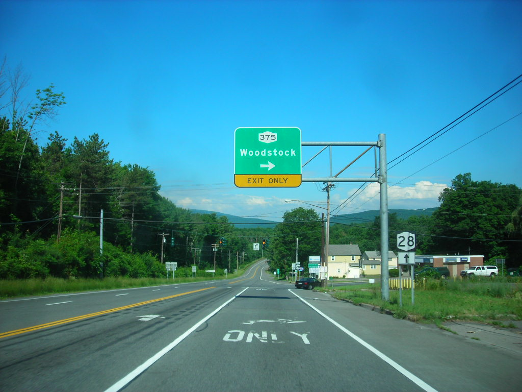 NY 28 at its intersection with NY 375.